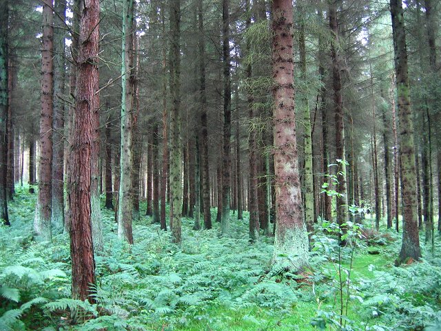 Beecraigs Woods. This square is mostly forest that is managed as a country park. This is a relatively mature stand, having been planted in 1958. Most forests get cut down long before the trees get this big, but the recreation remit of the management here probably means the trees get a longer life. (There is a lot of windthrow in the forest. When trees get big, the wind sees to the ones that escape the chainsaw.) I have been told by Alastair Gentleman that before the plantation, this was rough grazing: heather and grass.